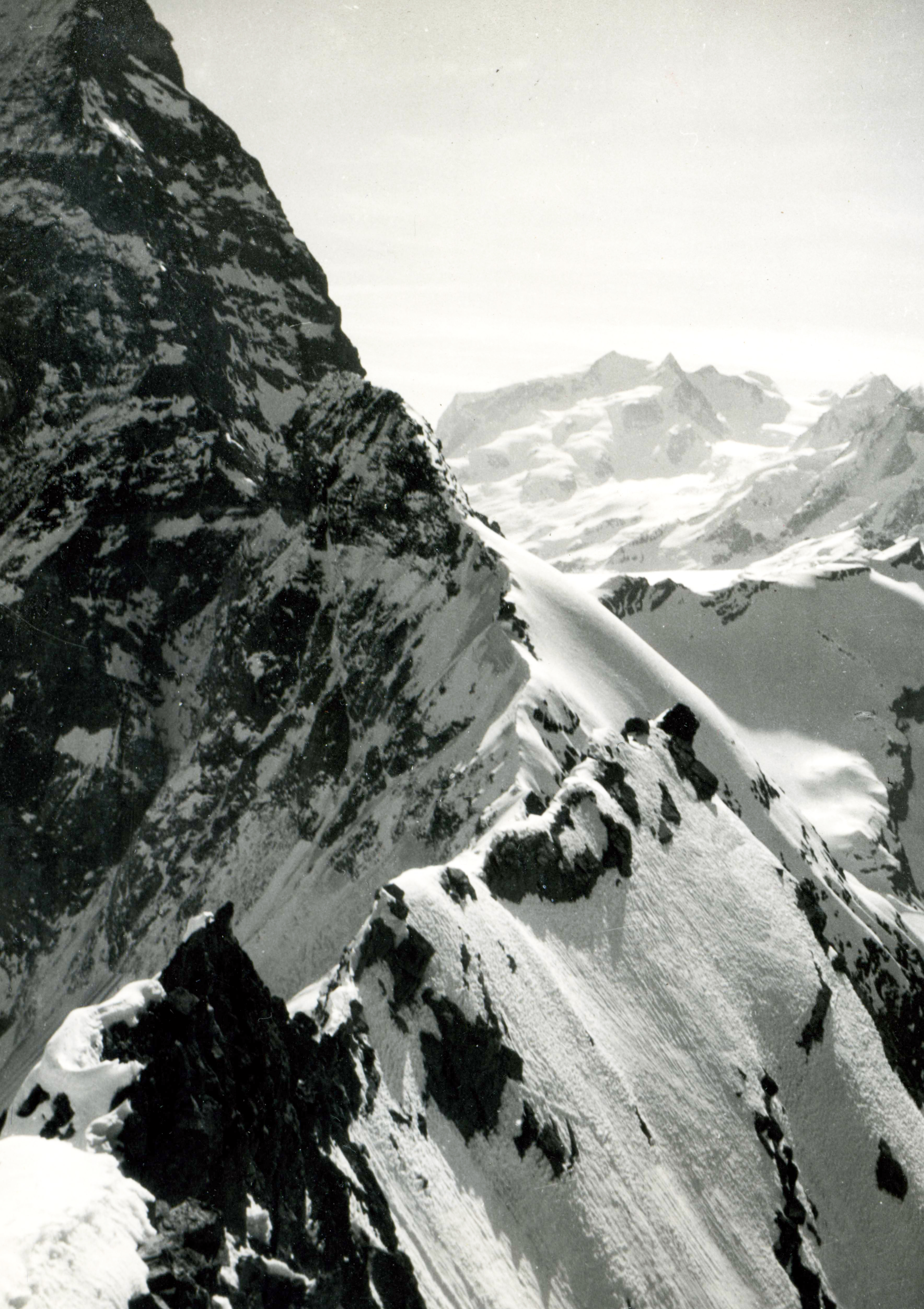 Dent d'Hérens, in the Pennine Alps.